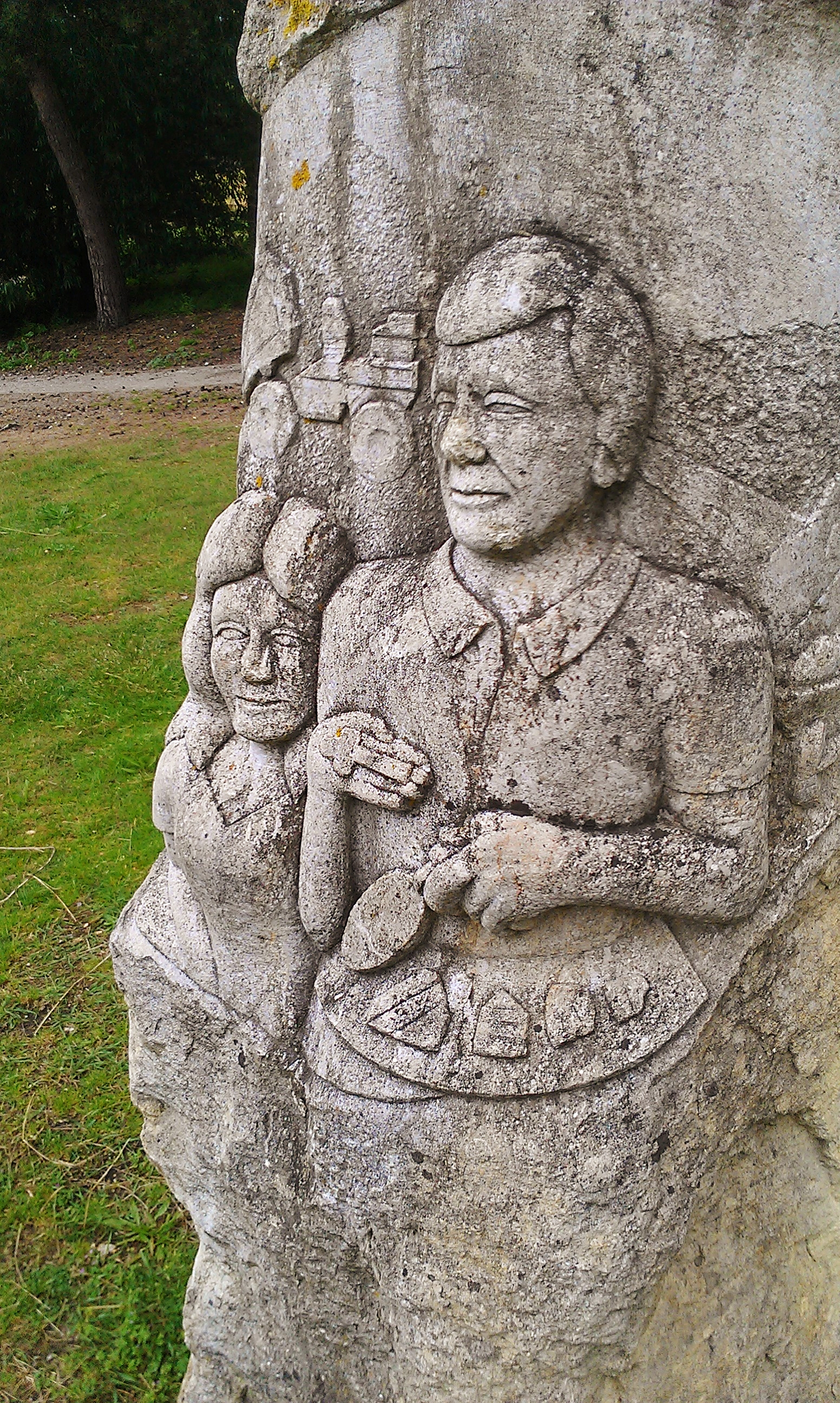 A carved depiction of the archaeologist Stanley West, located at West Stow Anglo-Saxon village. Taken in summer 2012.